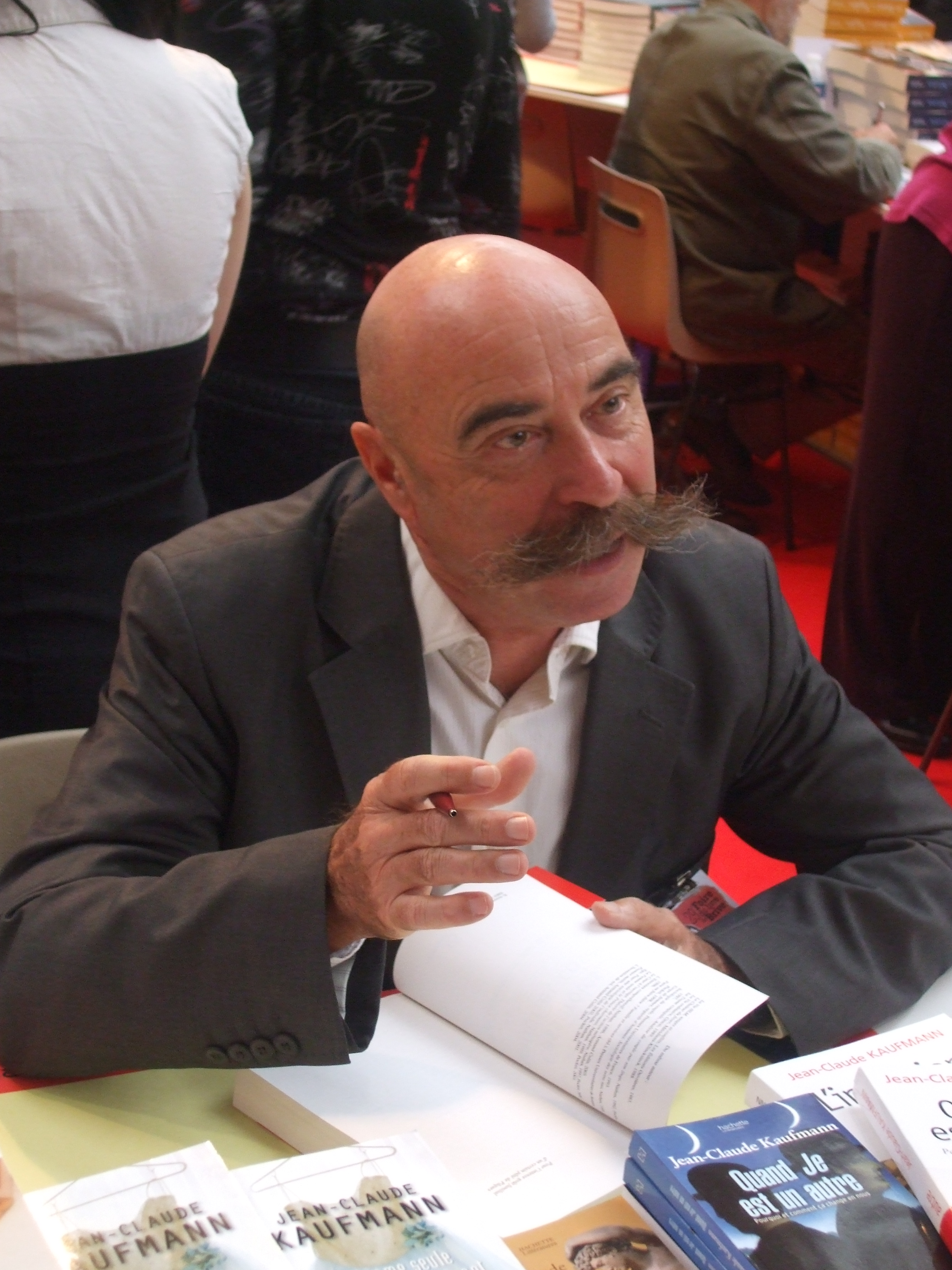 Jean-Claude Kaufmann, french sociologist, Brive la Gaillarde book fair, France, 2010 11 06